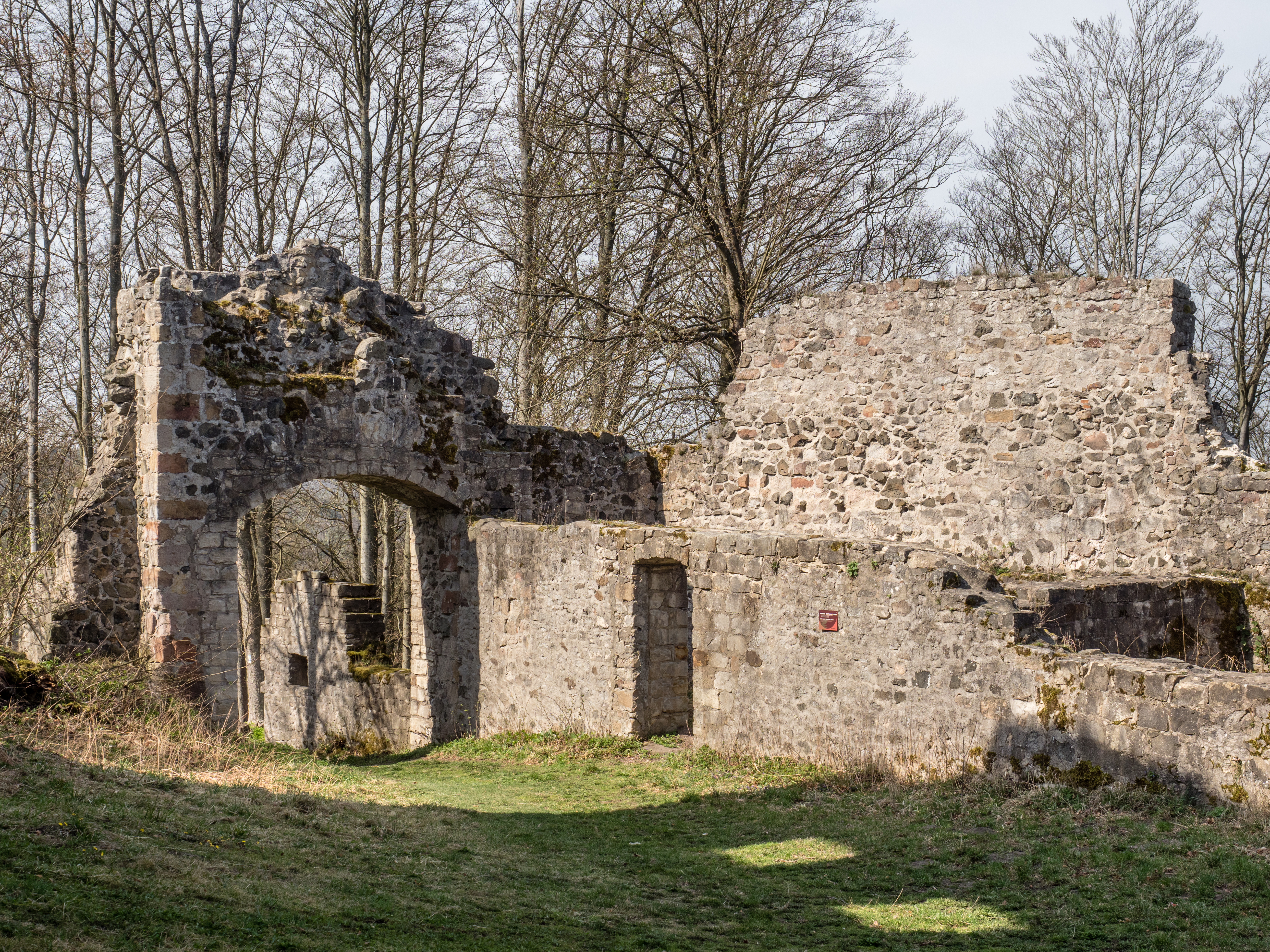 Bailey of the Bramberg ruin